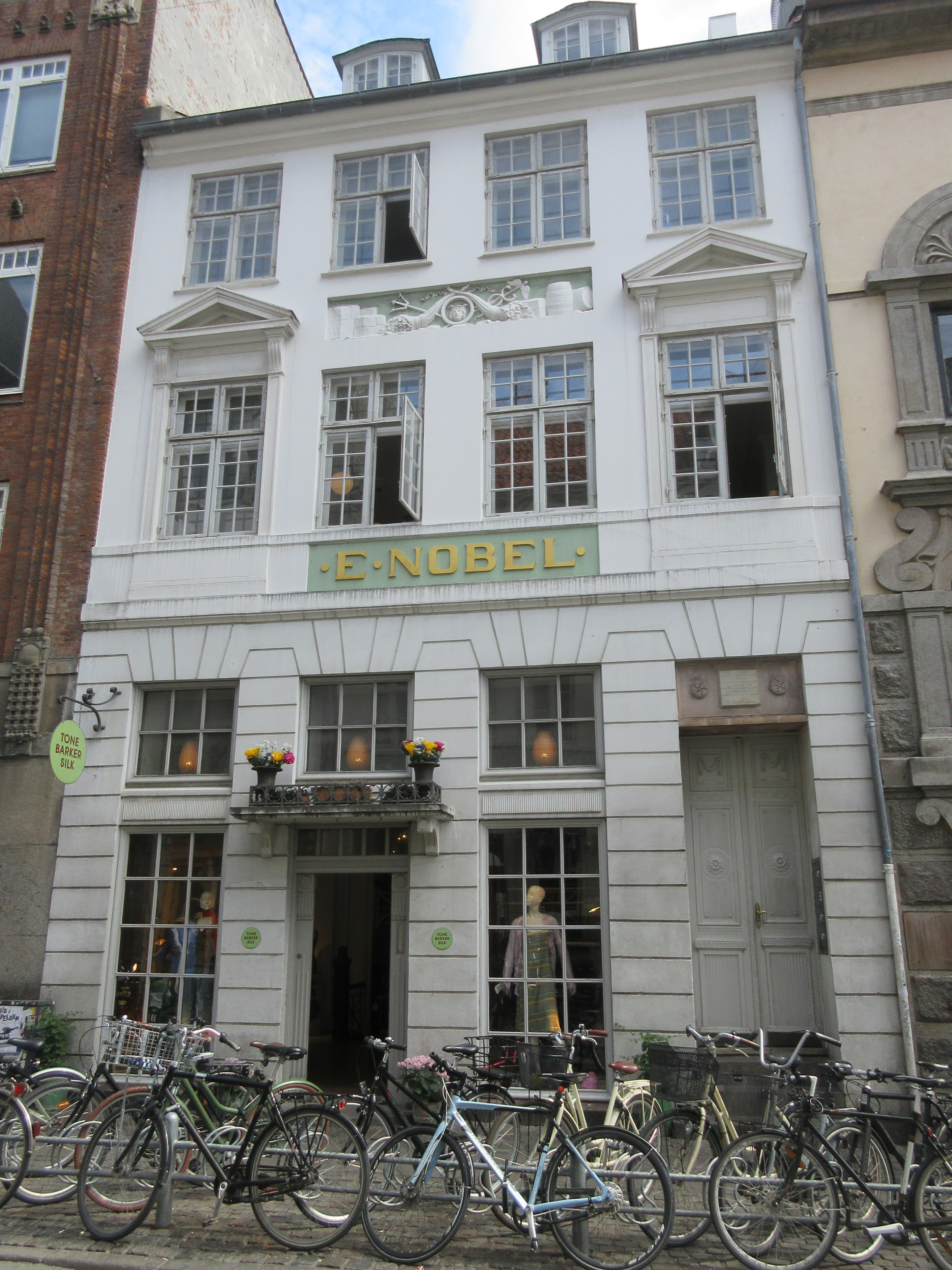 Vestergade 11 in Copenhagen, Denmark